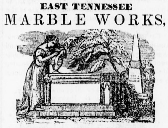 1856 advertisement for the East Tennessee Marble Works, a Tennessee marble monument company based in Knoxville, Tennessee, United States